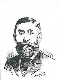 Sketch of Iowa State Senator J. Morris Rea (1846-1895), from the obituary printed in the Grundy County Republican upon his death.